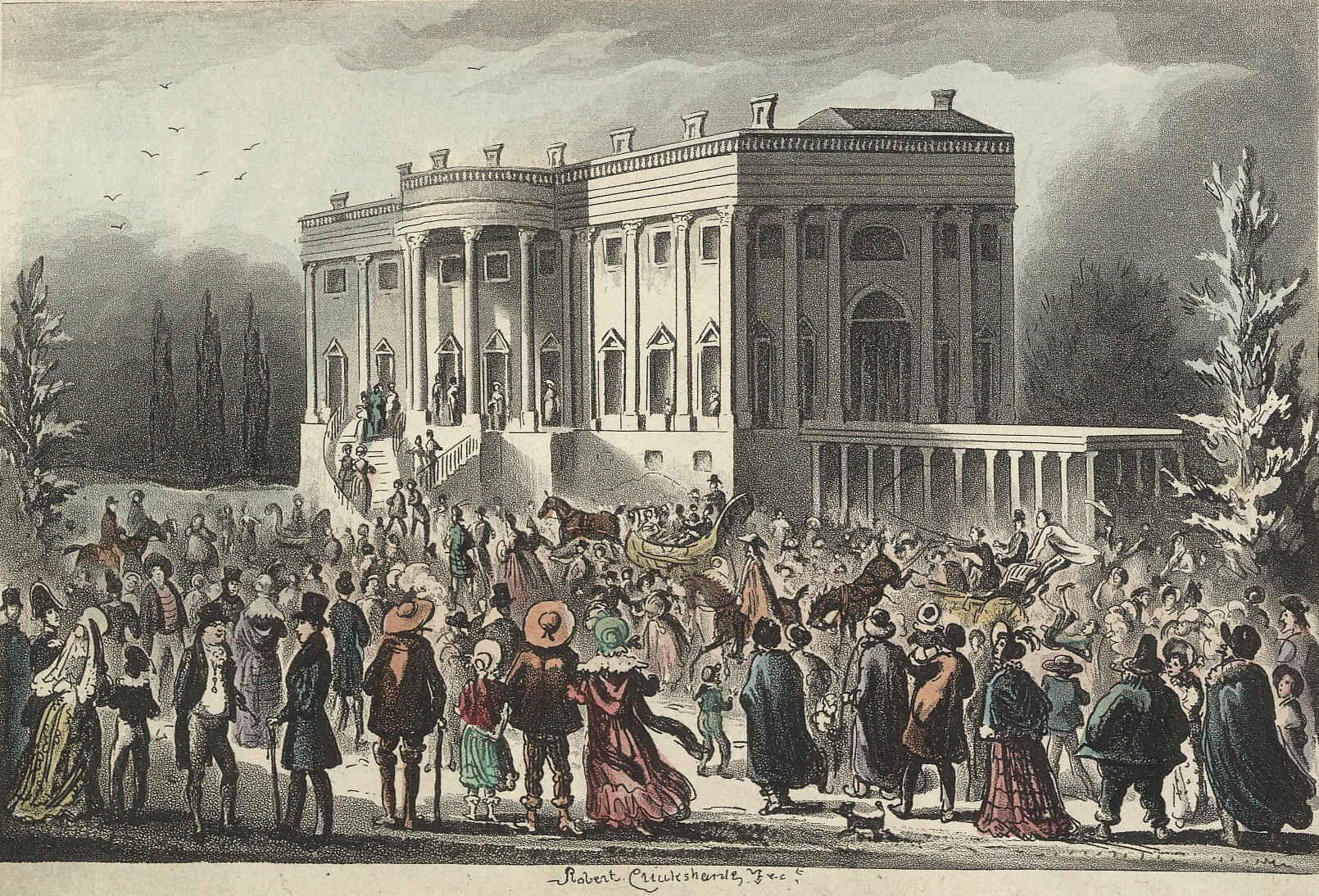 Work entitled: President's Levee, or all Creation going to the White House From Library of Congress: View of crowd in front of the White House during President Jackson's first inaugural reception in 1829. The furnishings of the White House were destroyed by the rowdy crowd during the inaugural festivities.